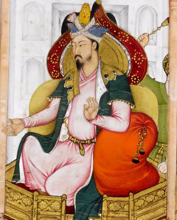 Darbar of Humayun, detail, Humayun. Akbarnama, 1602-4, British Library